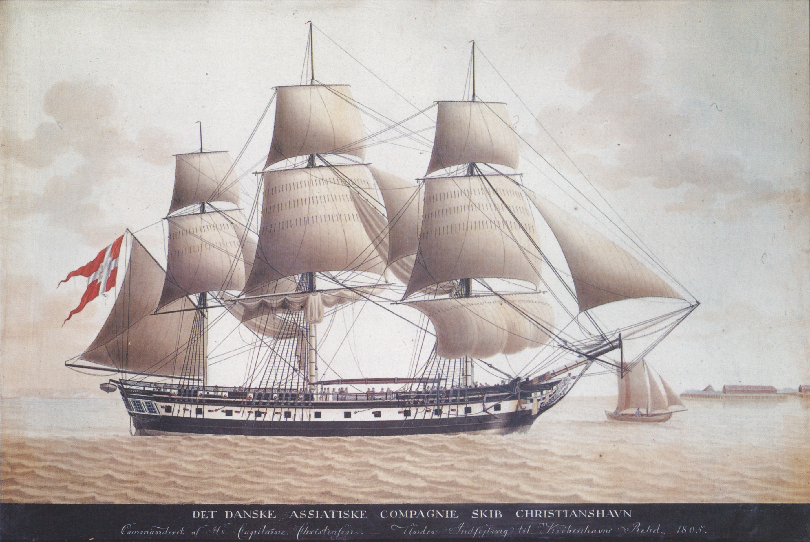 The frigate Christianshavn of the Danish Asiatic Company, passing fort Trekroner on its way to Copenhagen in 1805. Lønning attended the Academy in Copenhagen after his early sailing years. Pen and watercolour, 43 x 63.5 cm. Danish Maritime Museum Native nameM/S Museet for SøfartLocationHelsingør, DenmarkCoordinates56° 02′ 21″ N, 12° 37′ 17″ E Established1914Web page control : Q5219764 VIAF: 124161087 ISNI: 0000 0001 2106 8969 LCCN: n81119663 NLA: 35402300 GND: 1040988-9 WorldCat . Source: Hanne Poulsen, Danske Skibsportrætmalere, page 88 & 119.